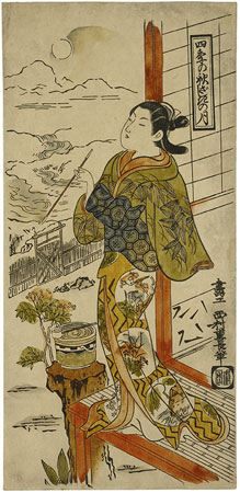 Nishimura Shigenaga, Shiki no aki zashiki no tsuki, Four Seasons – Autumn Moon above the Reception Room, 1725–1730, Provenance: R.G.Sawers, London (November 1967) RK #8